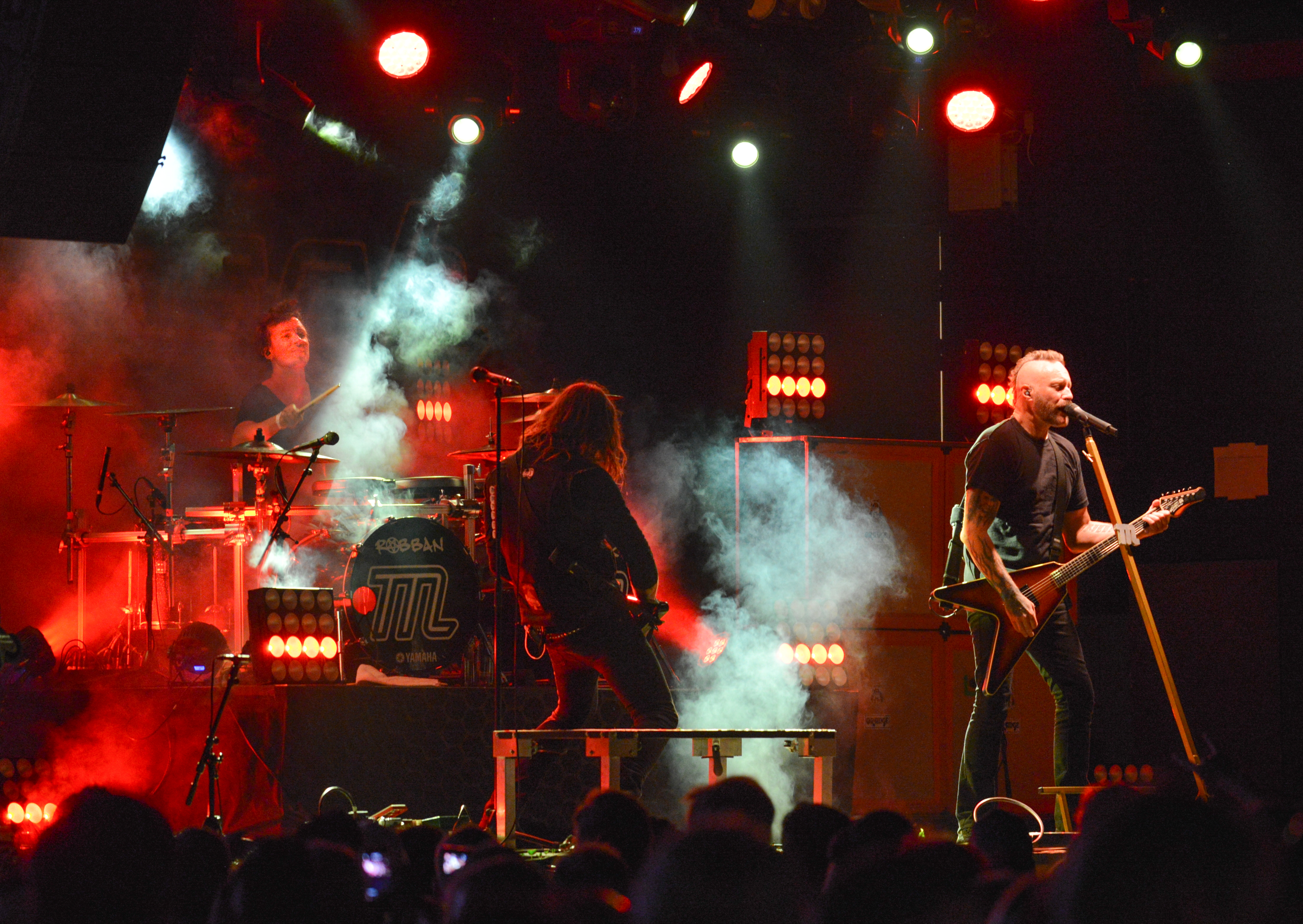 Mustasch performs at Rockfest in Kungsträdgården in Stockholm on July 20, 2018. Band members Ralf Gyllenhammar, Stam Johansson, David Johannesson and Robban Bäck.